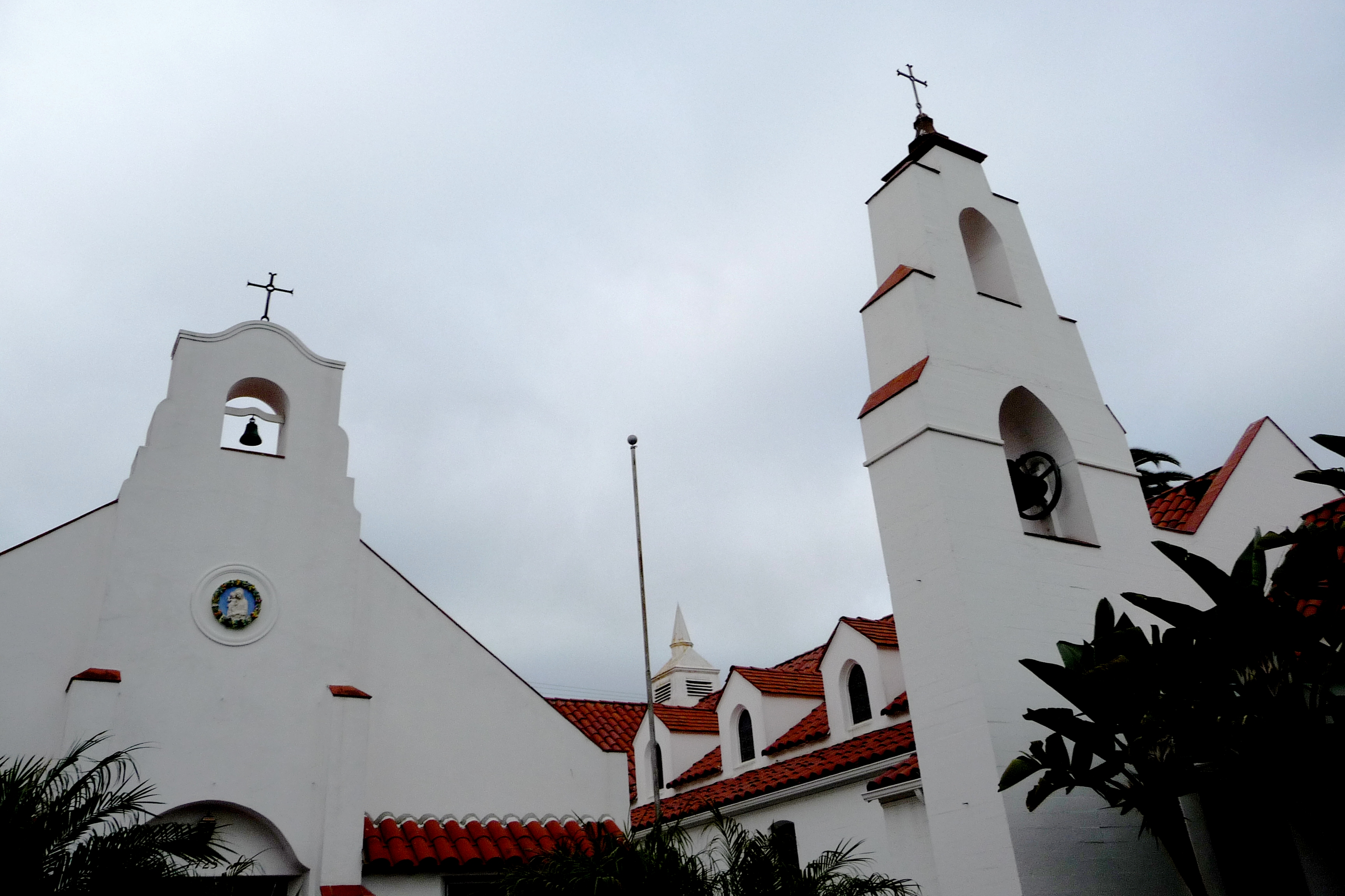 St. James by the Sea, La Jolla